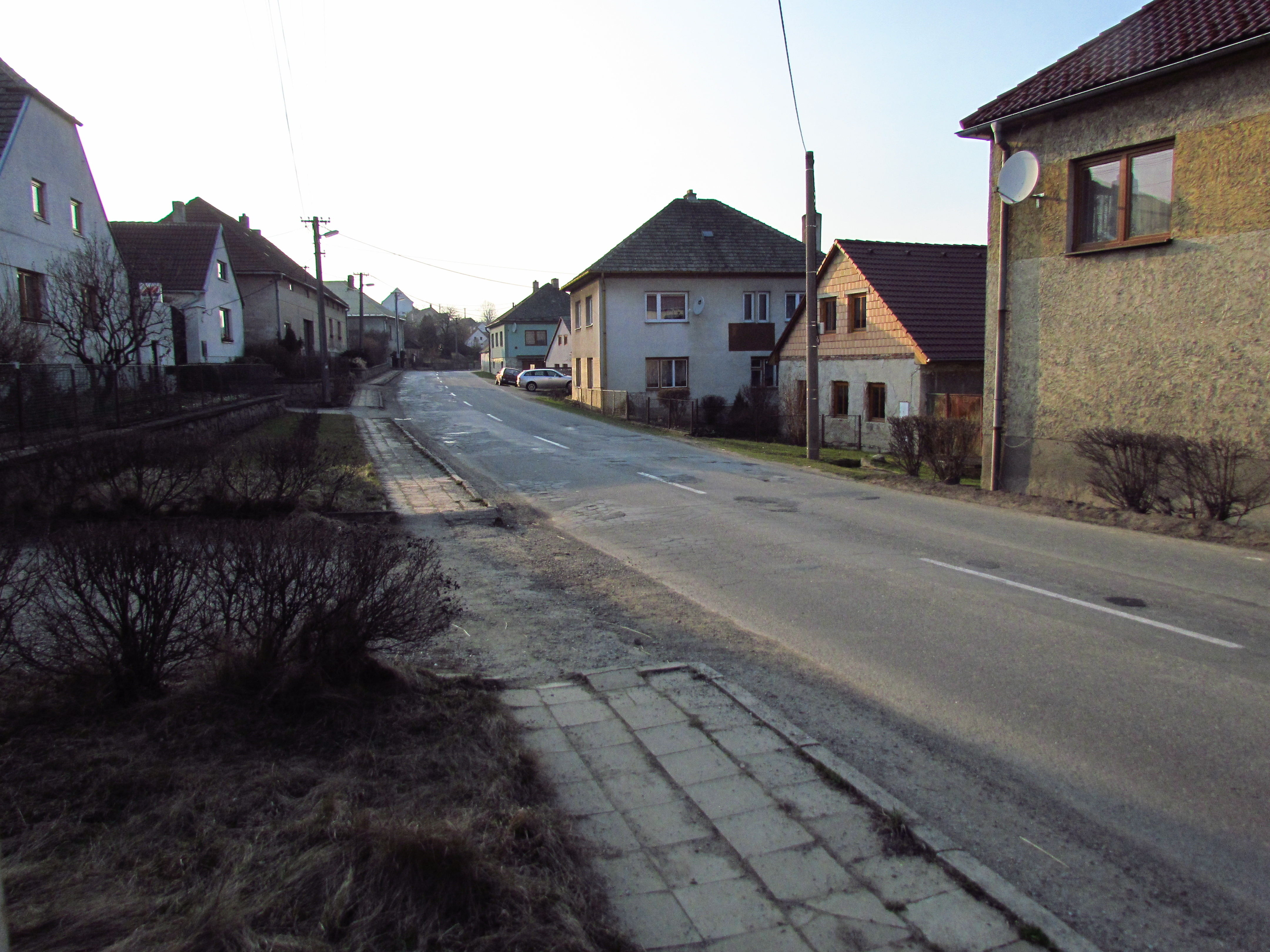 Center of Zašovice, Třebíč District.